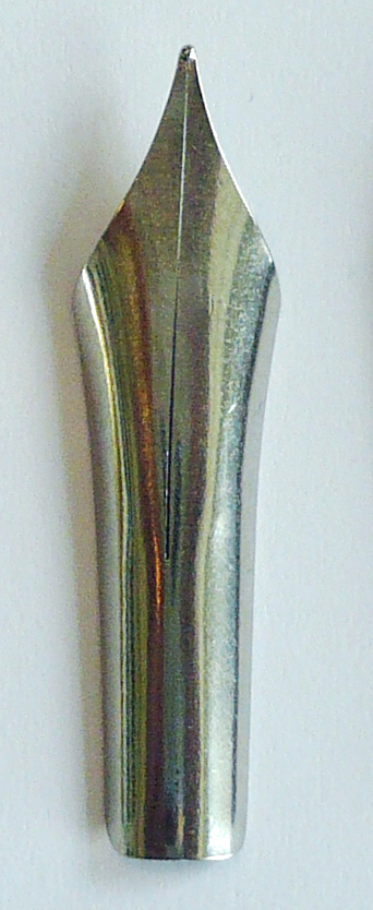 Fountain pen flexible (semi-flex) nib made in 2016. This example is a № 10/#6 Indian chrome plated stainless steel Ambitious semi-flex nib (the oblique cut nib slit is intentional for maximizing ink flow). The nib bases and bodies of Indian № 10 nibs are optimized to fit on 6.35 mm (¼ in) diameter feeds. The Indian № 10 nibs often will fit on 6 mm diameter feeds. #6 and № 10 nibs are approximately 35 mm long.